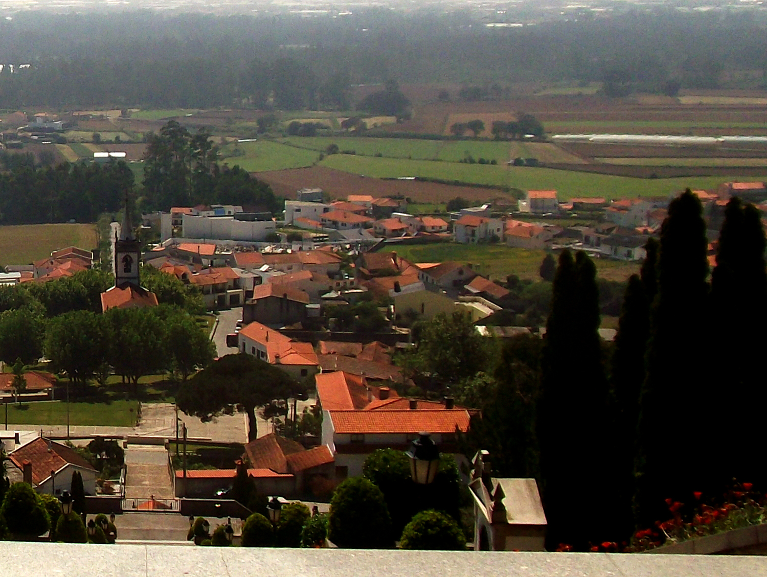 Senhora da Saude Hamlet, Laundos Parish, Póvoa de Varzim, Portugal